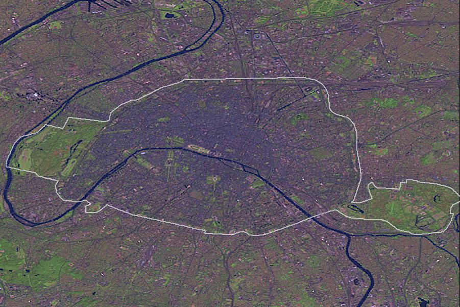 Paris with city limits by Landsat (false colours)